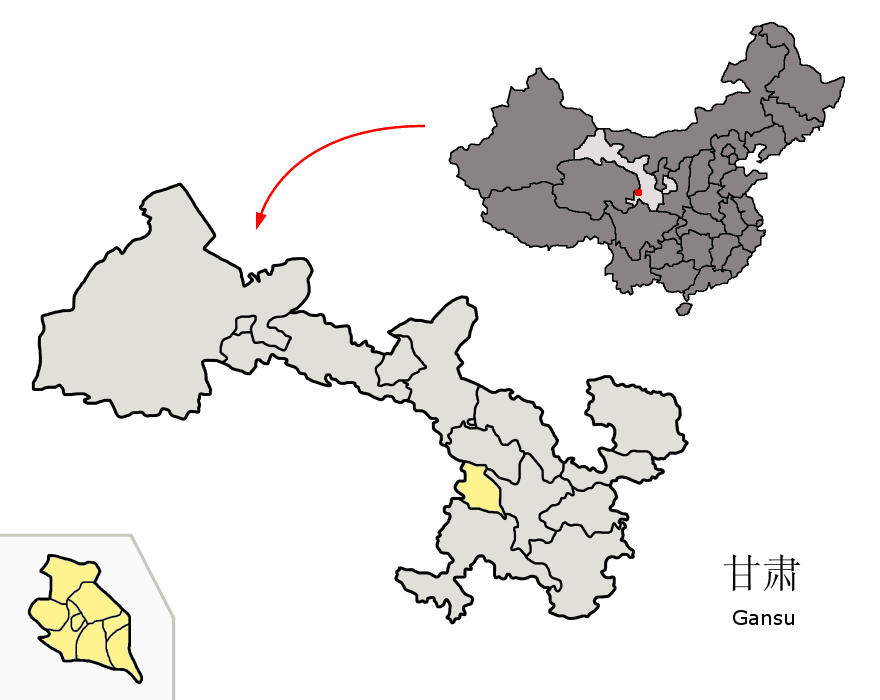 Location of Linxia Prefecture (yellow) within Gansu province of China Map drawn in october 2007 using various sources, mainly : Gansu province administrative regions GIS data: 1:1M, County level, 1990 Gansu Counties map from